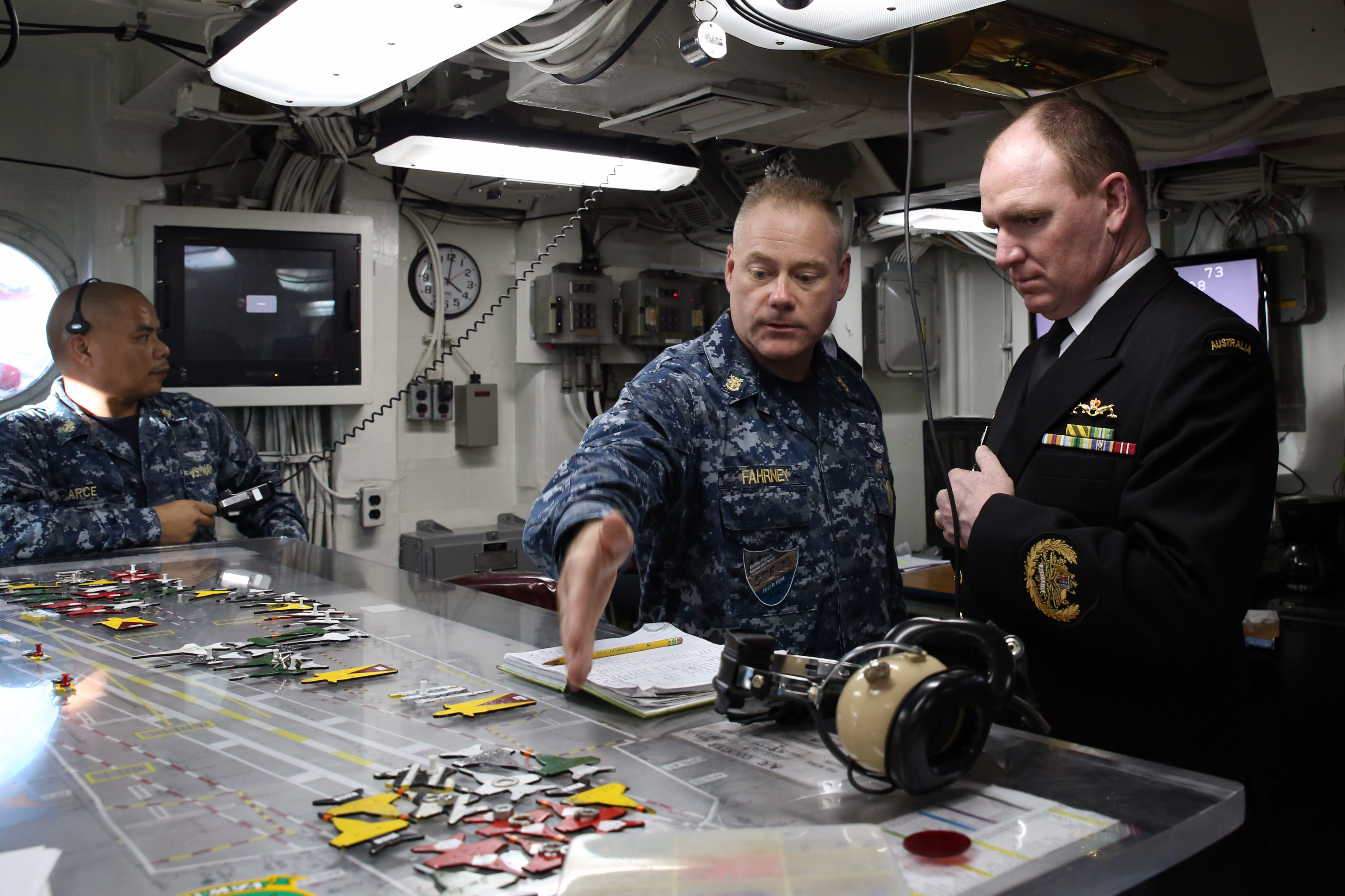 BRISBANE, Australia (Aug. 2, 2013) Commander, Task Force 70 Command Master Chief Joseph Fahrney, left, describes the Ouji board in Flight Deck Control to Warrant Officer of the Royal Australian Navy Martin Holzberger during a tour of the U.S. Navy's forward-deployed aircraft carrier USS George Washington (CVN 73). George Washington and its embarked air wing, Carrier Air Wing (CVW) 5, provide a combat-ready force that protects and defends the collective maritime interest of the U.S. and its allies and partners in the Indo-Asia-Pacific region. (U.S. Navy photo by Mass Communication Specialist 3rd Class Michelle N. Rasmusson)